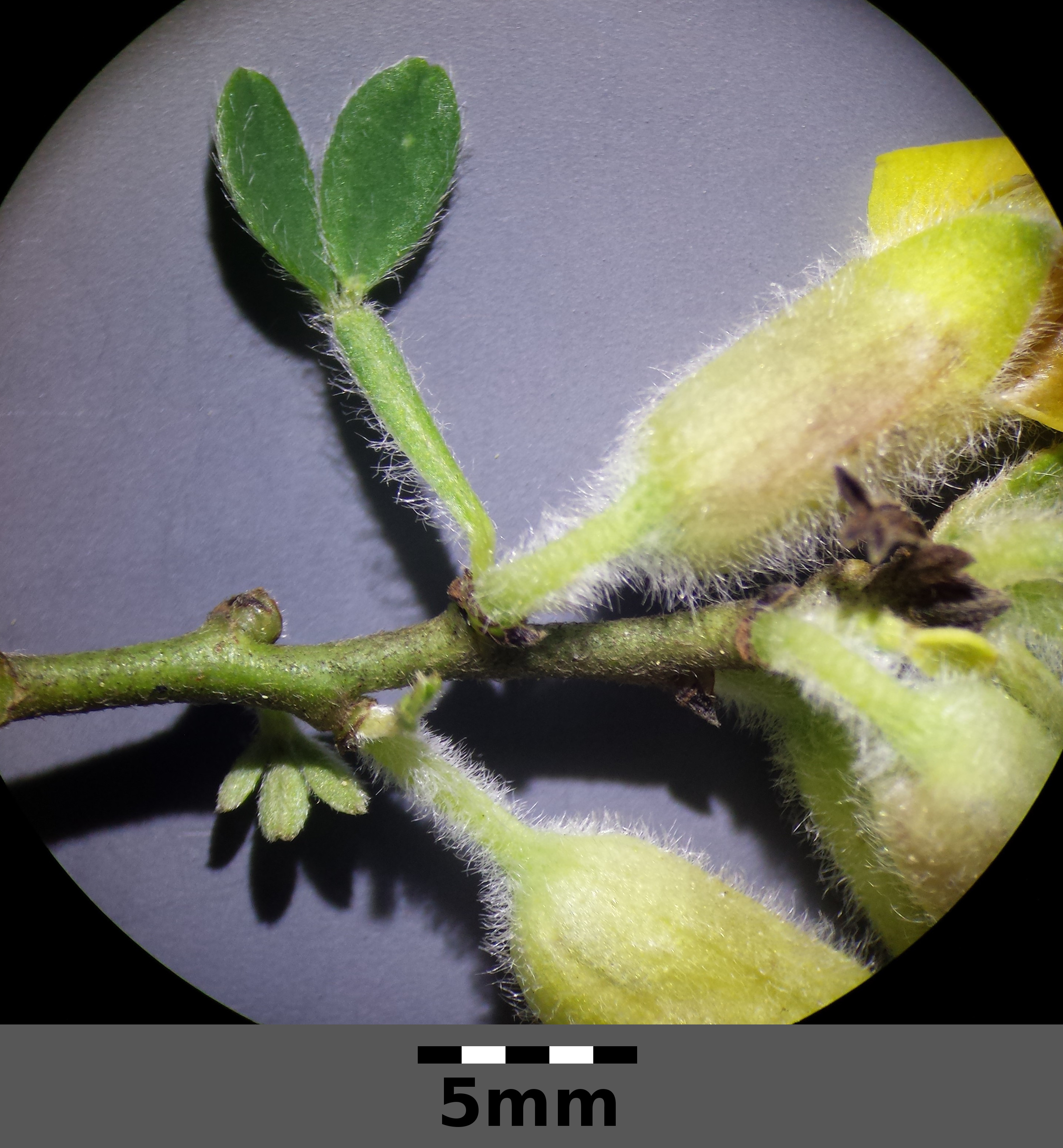 Older branches lose their hairs Taxonym: Chamaecytisus supinus ss Fischer et al. EfÖLS 2008 ISBN 978-3-85474-187-9 Location: Steinberg near Niederhollabrunn, district Korneuburg, Lower Austria - ca. 375 m a.s.l. Habitat: semi-dry grassland